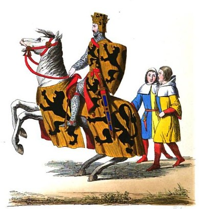 Philip of Flanders